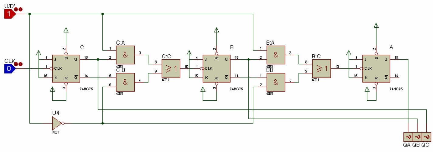 Counter